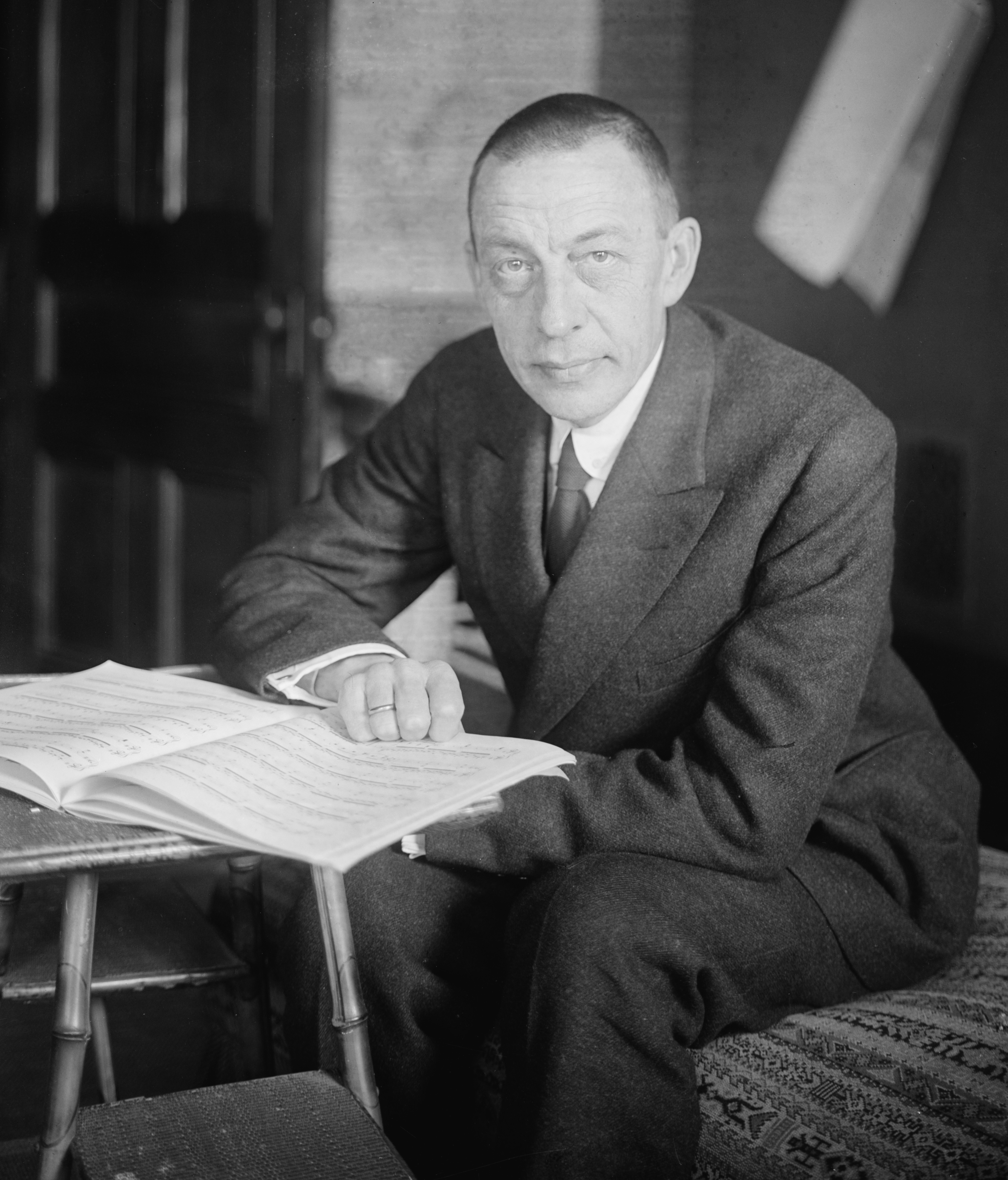 Sergei Rachmaninoff, date of photo not recorded.